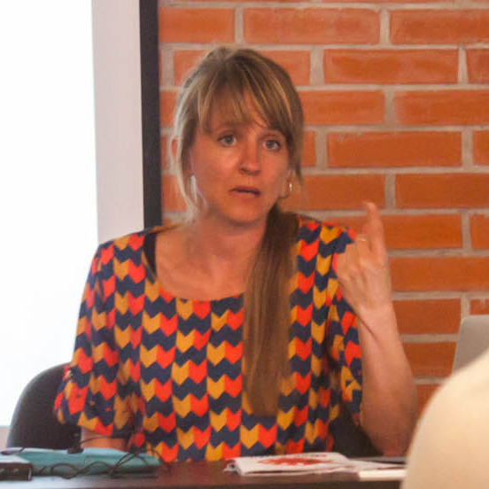 24 de febrero de 2014; Instituto de Comunicación Especializada; con la presencia de Seraina Rohrer. Foto por Arlette Blanco.